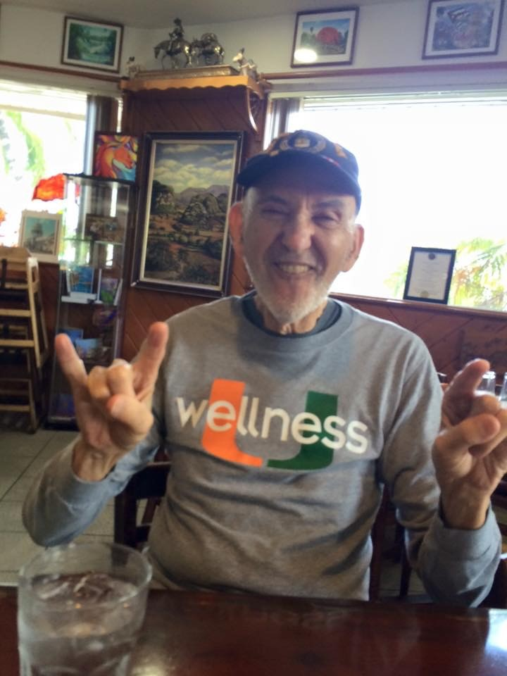 Photo taken at Rancho Luna restaurant in Little Havana in April 2015